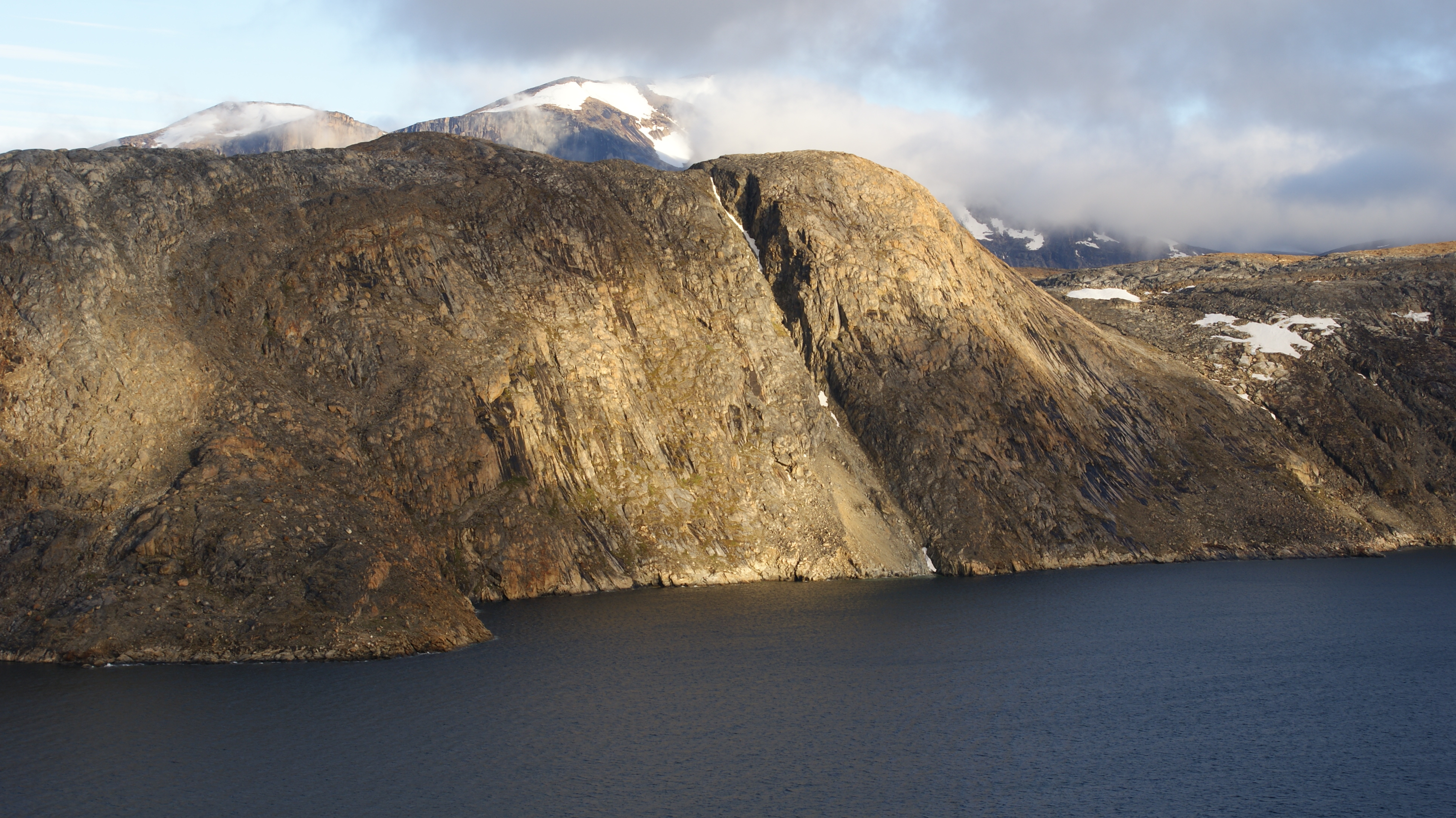 Akia Island, Upernavik Archipelago, Greenland. Photographed in the evening from Upernavik Island (from the north). Sandersons Hope mountain on Qaarsorsuaq Island is hidden in a cloud.